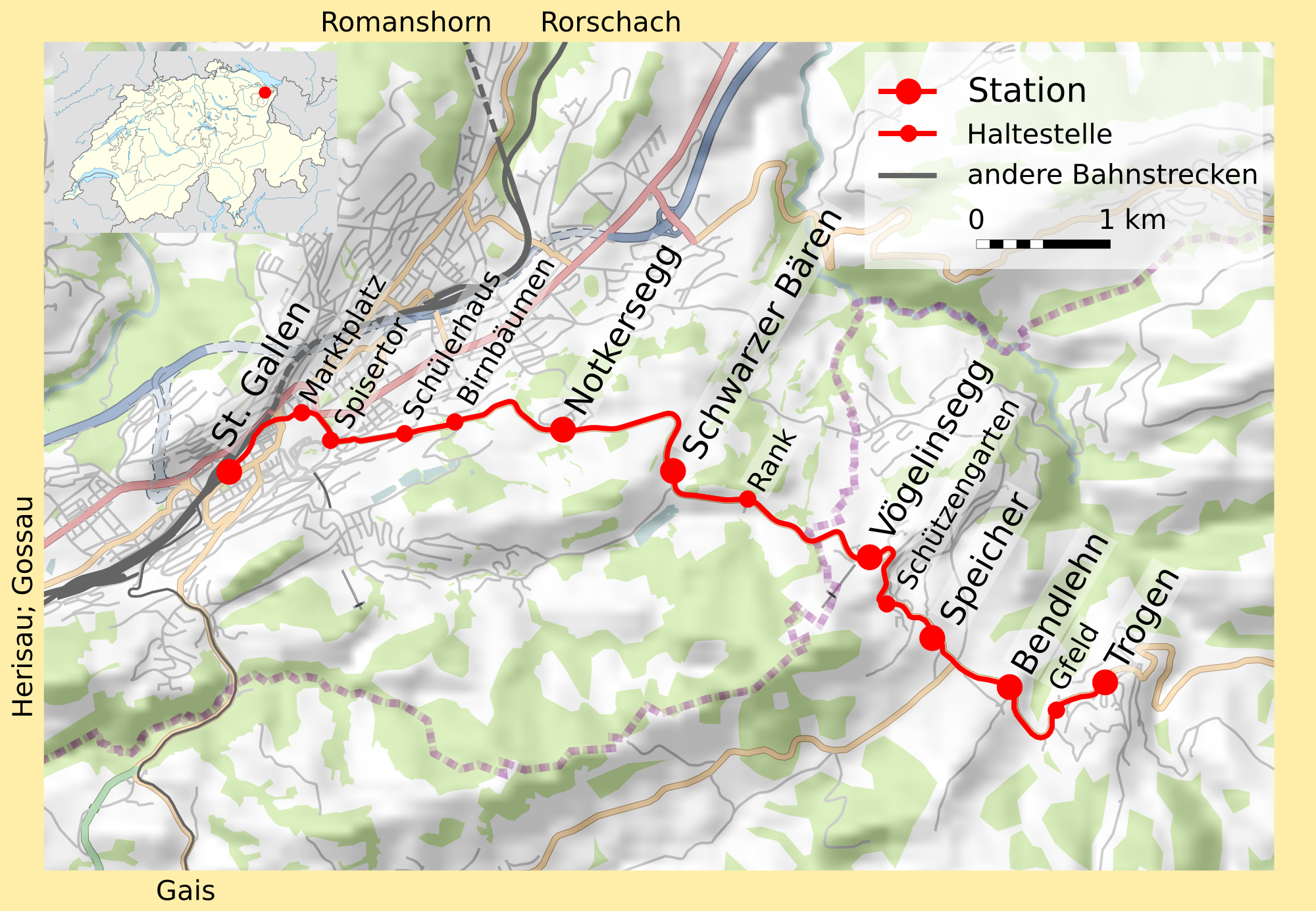 Rail map Trogenerbahn